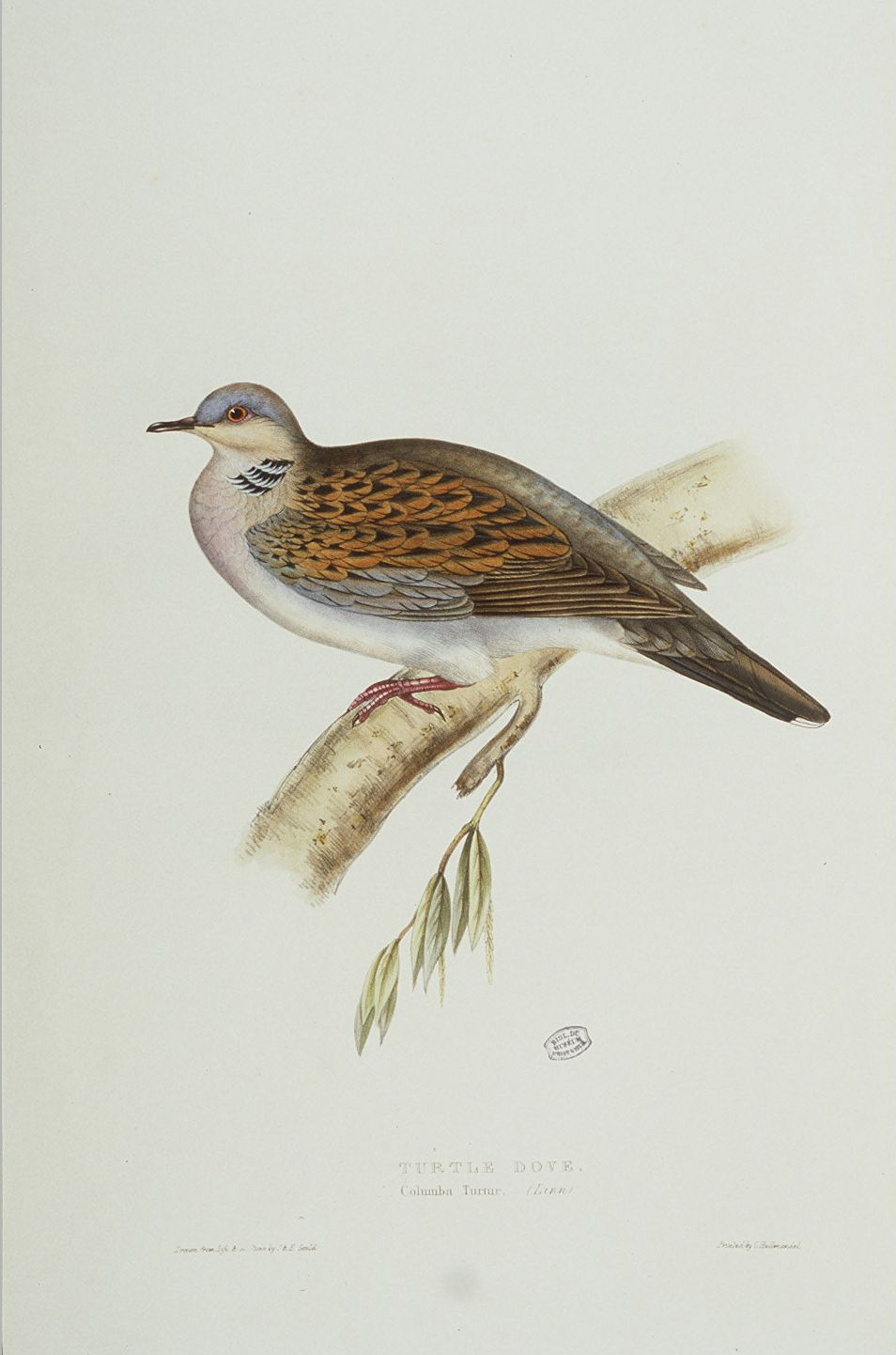 Illustration of Streptopelia turtur Linn., (Turtle Dove). Drawn from Nature and on Stone by John and Elizabeth Gould.